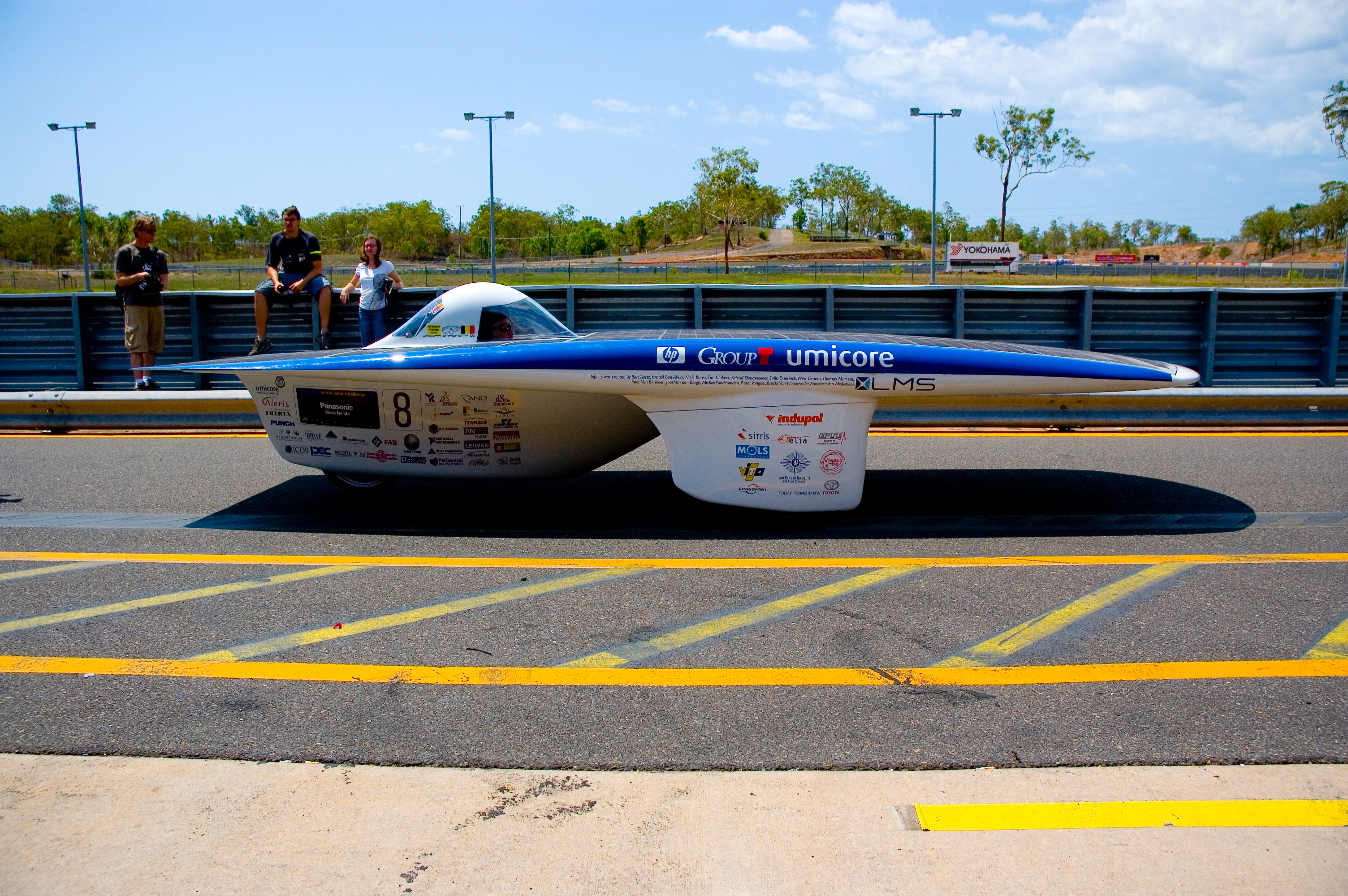 The Umicar Infinity